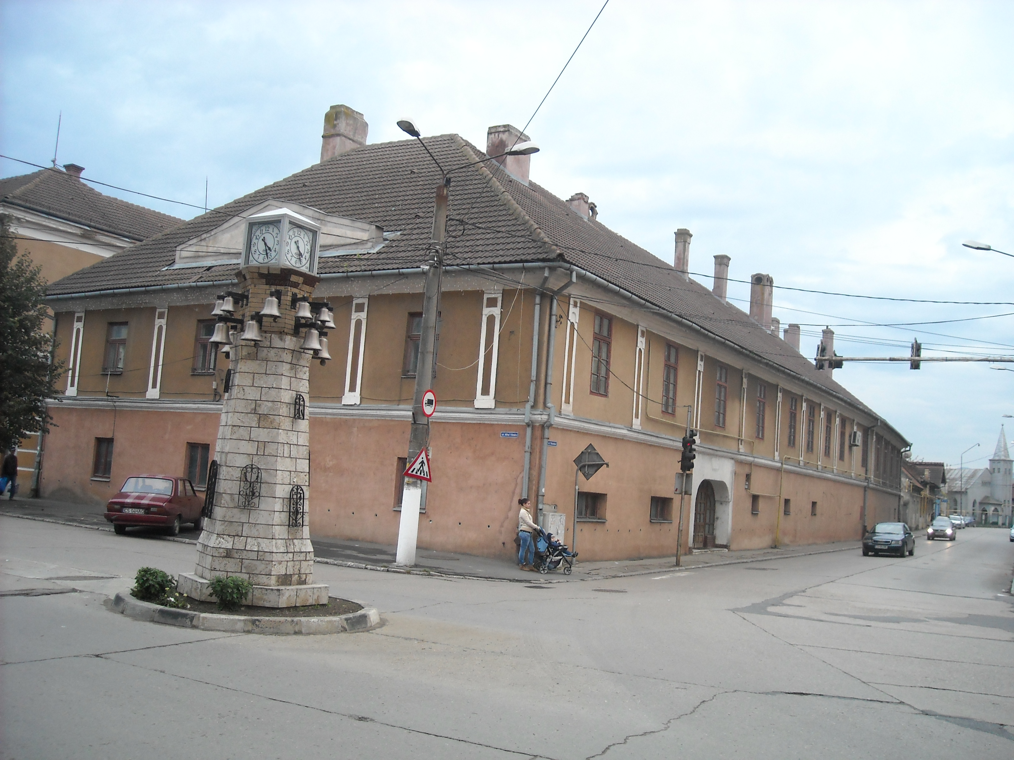 the former Military Tribunal, later the Prosecutor's Office in Caransebeș, with the Calvinist church in the background